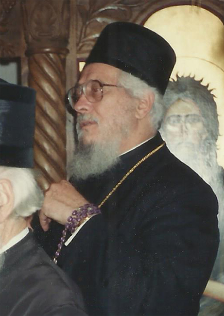 Metropolitan Christopher (Kovacevich) in the Holy Transfiguration Monastery in Milton, Ontario in 1994.In front of him is Patriarch Pavle who was Patriarch of the Serbian Orthodox Church from 1990 to 2009 and behind Metropolitan Christopher (on the iconostasis) can be seen an icon of Saint John the Baptist.